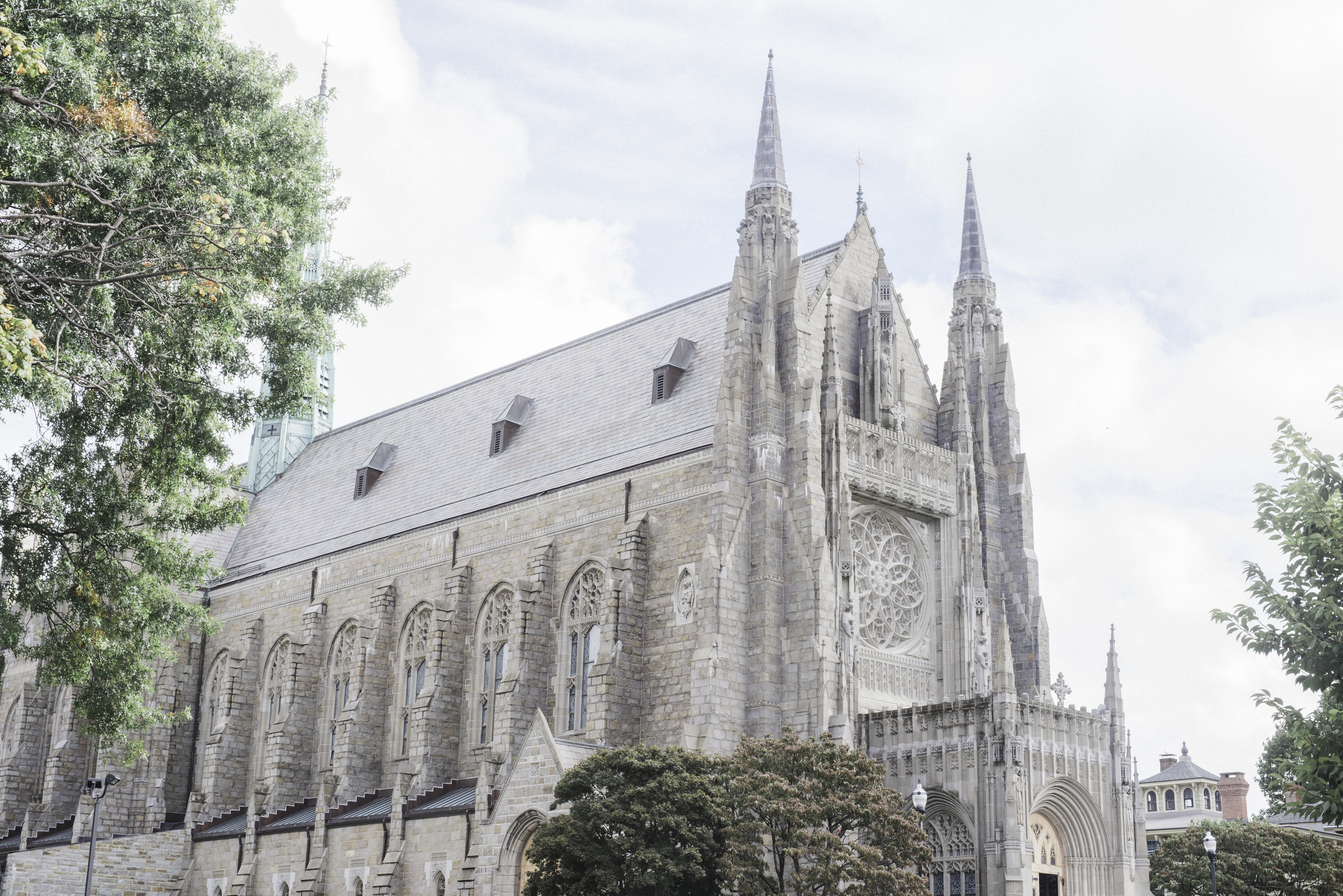 St. Mary's Church in Stamford, CT.